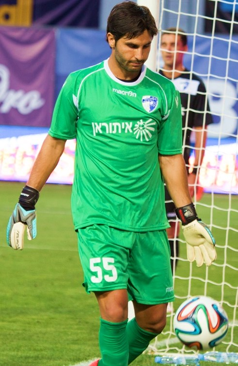 Guy Haimov